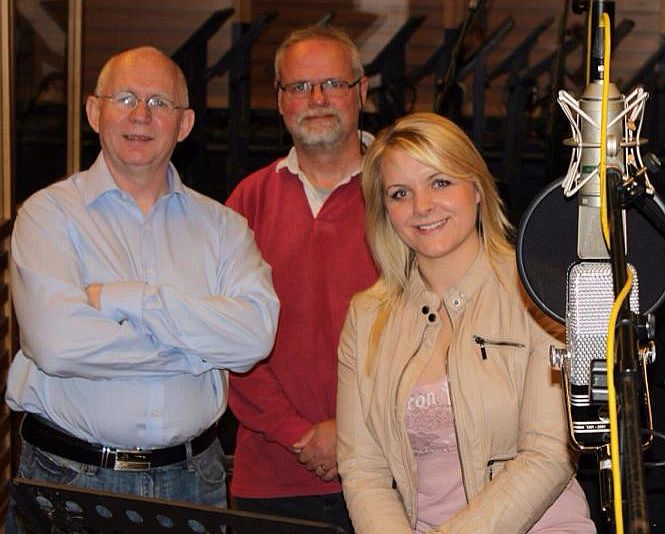 Paul Bateman, James Fitzpatrick, Rebecca